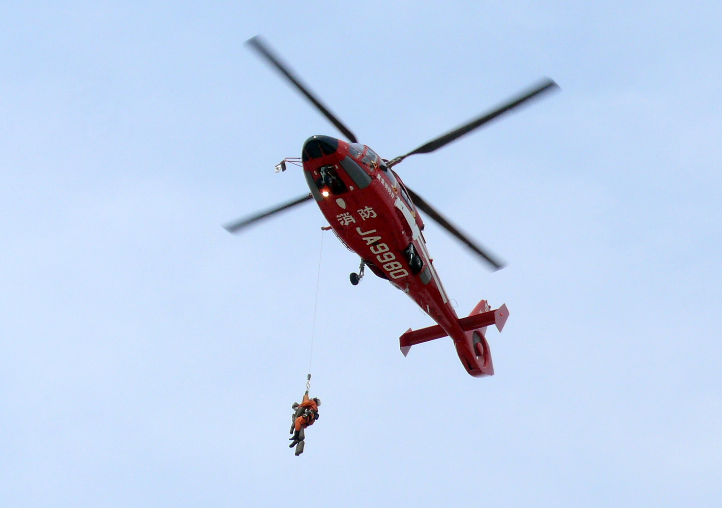 Tokyo Fire Department "Tubame" Eurocopter Dauphin. (Japan)